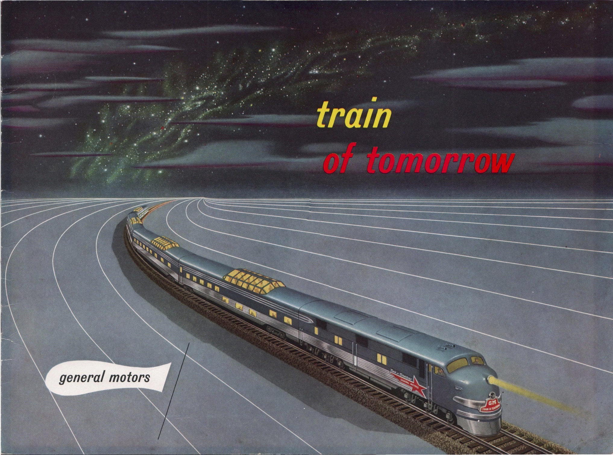 Front cover of a promotional brochure distributed by General Motors describing the Train of Tomorrow, a demonstrator built by GM and Pullman-Standard.